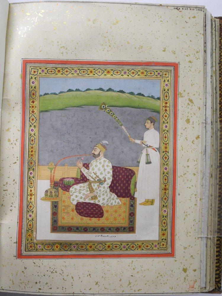 Album Leaf (verso). Portrait. Ḥasan ʿAlí Xárí, later ʿAbdulláh Xár Quṭb al-mulk. On Paper. According to register, folio 29. See 1974,0617,0.10 for album description.